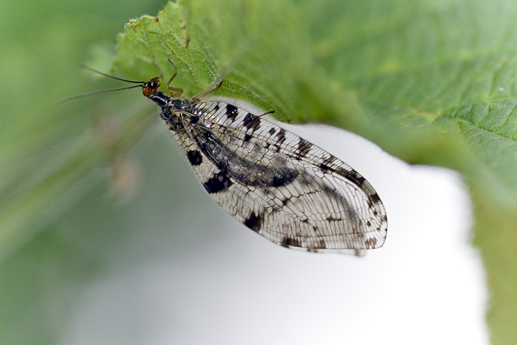 Osmylus fulvicephalus